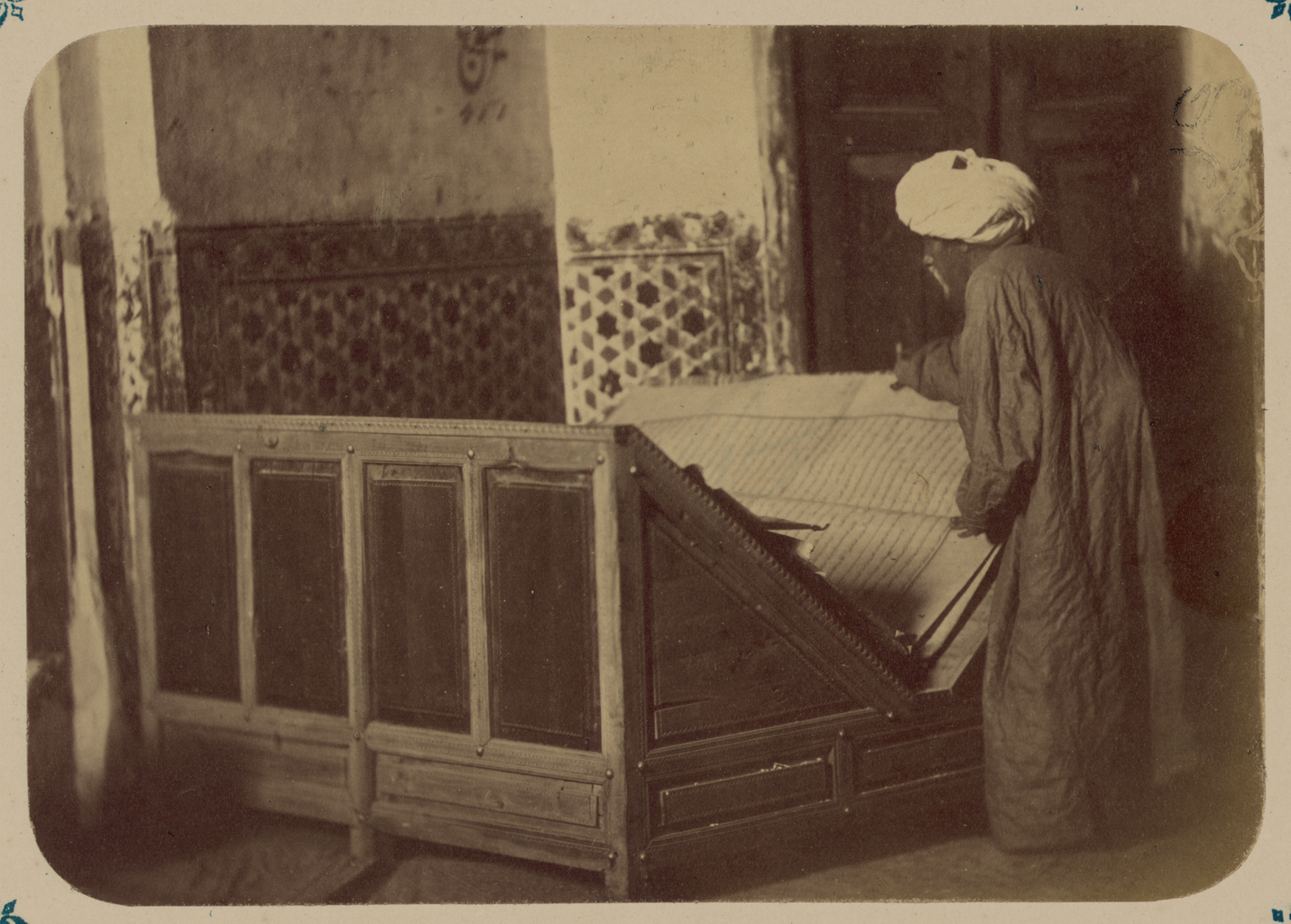 This interior photograph of the mosque at the Kusam-ibn-Abbas memorial ensemble in the northern cluster of shrines at the Shah-i Zindah necropolis in Samarkand is from the archeological part of Turkestan Album. The six-volume photographic survey was produced in 1871-72, under the patronage of General Konstantin P. von Kaufman, the first governor-general (1867-82) of Turkestan, as the Russian Empire's Central Asian territories were called. The album devotes special attention to Samarkand’s Islamic architecture, such as 14th- and 15th-century monuments from the reign of Timur (Tamerlane) and his successors. The Shah-i Zindah (Persian for “living king”) complex is revered as a memorial and pilgrimage site for Kusam-ibn-Abbas, a cousin of the Prophet Muhammad. This view shows a worshipper in front of a wooden rihal (Qur'an holder) in the largest structure of the ensemble, the memorial mosque, or khanaka, which dates from the first half of the 15th century. The rihal supports a large Qur'an donated, according to the album caption, by Emir Nasrullah of Bukhara. The walls behind the rihal are partially covered by polychrome ceramic work with a geometric motif formed by intersecting lines that create six-pointed stars. The upper part of the middle wall displays remnants of an inscription. The door to the right leads to other chambers in this mausoleum complex. Koran; Koran stands; Mosques; Photographic surveys; Sepulchral monuments; Shāh-i Zindah; Spiritual life; Tombs